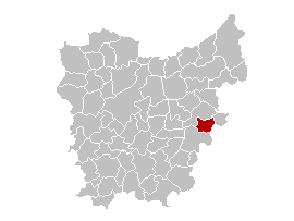 Lebbeke Location (1)